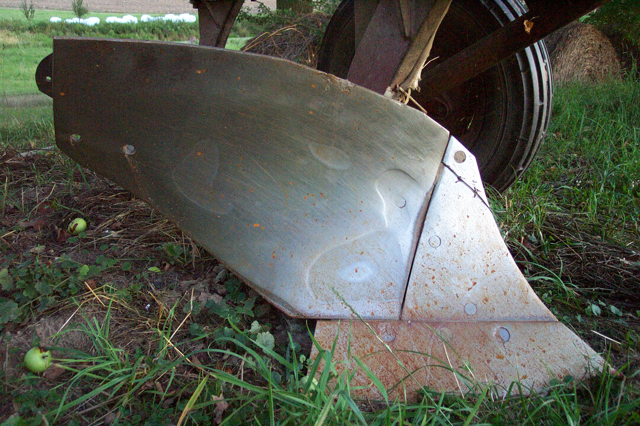 Plow bottom.